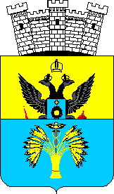 Coat of arms of Balta in 1852